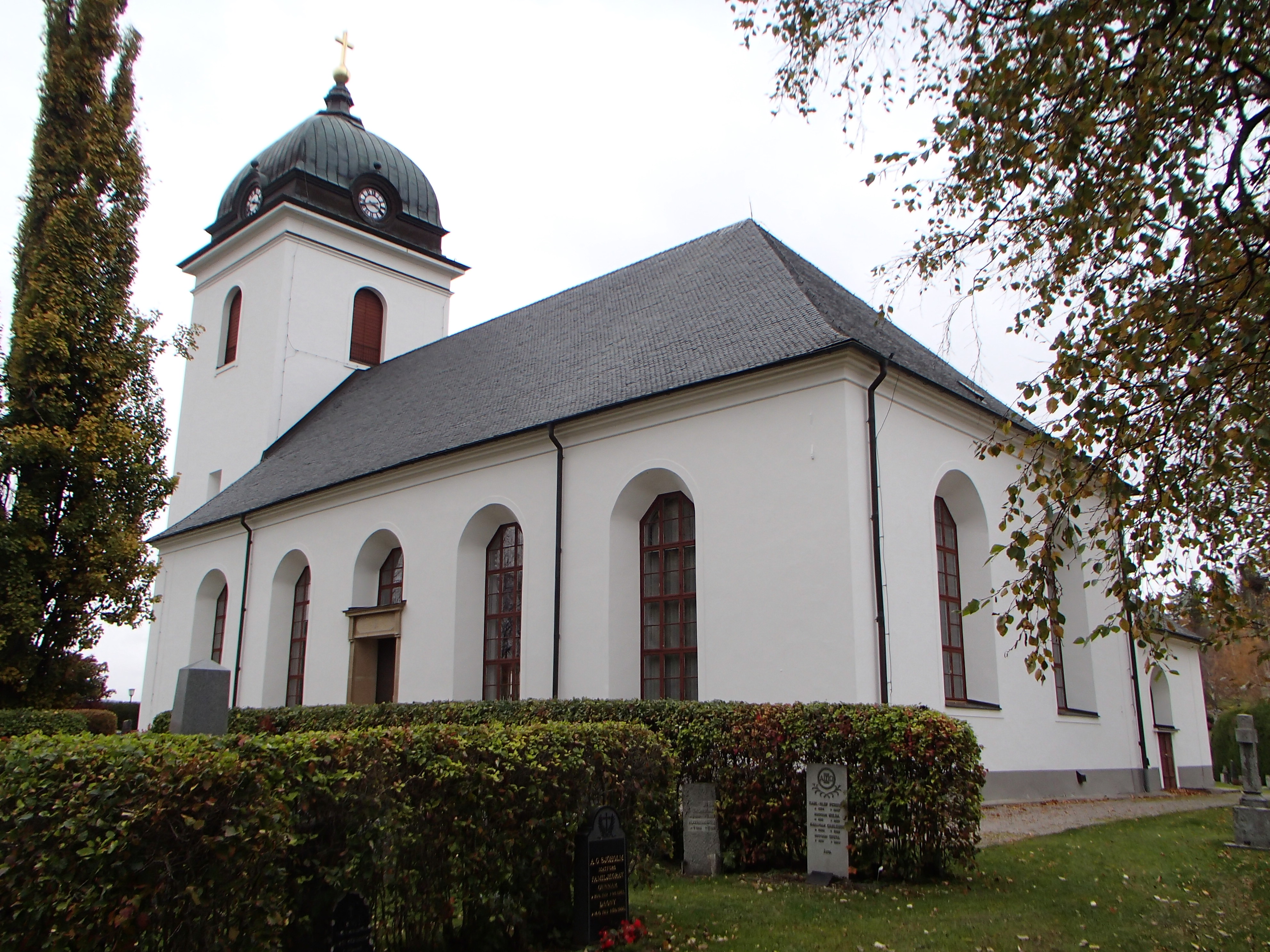 The church building of "Tuna kyrka" at Matfors in Sundsvall Municpality, viewed from south